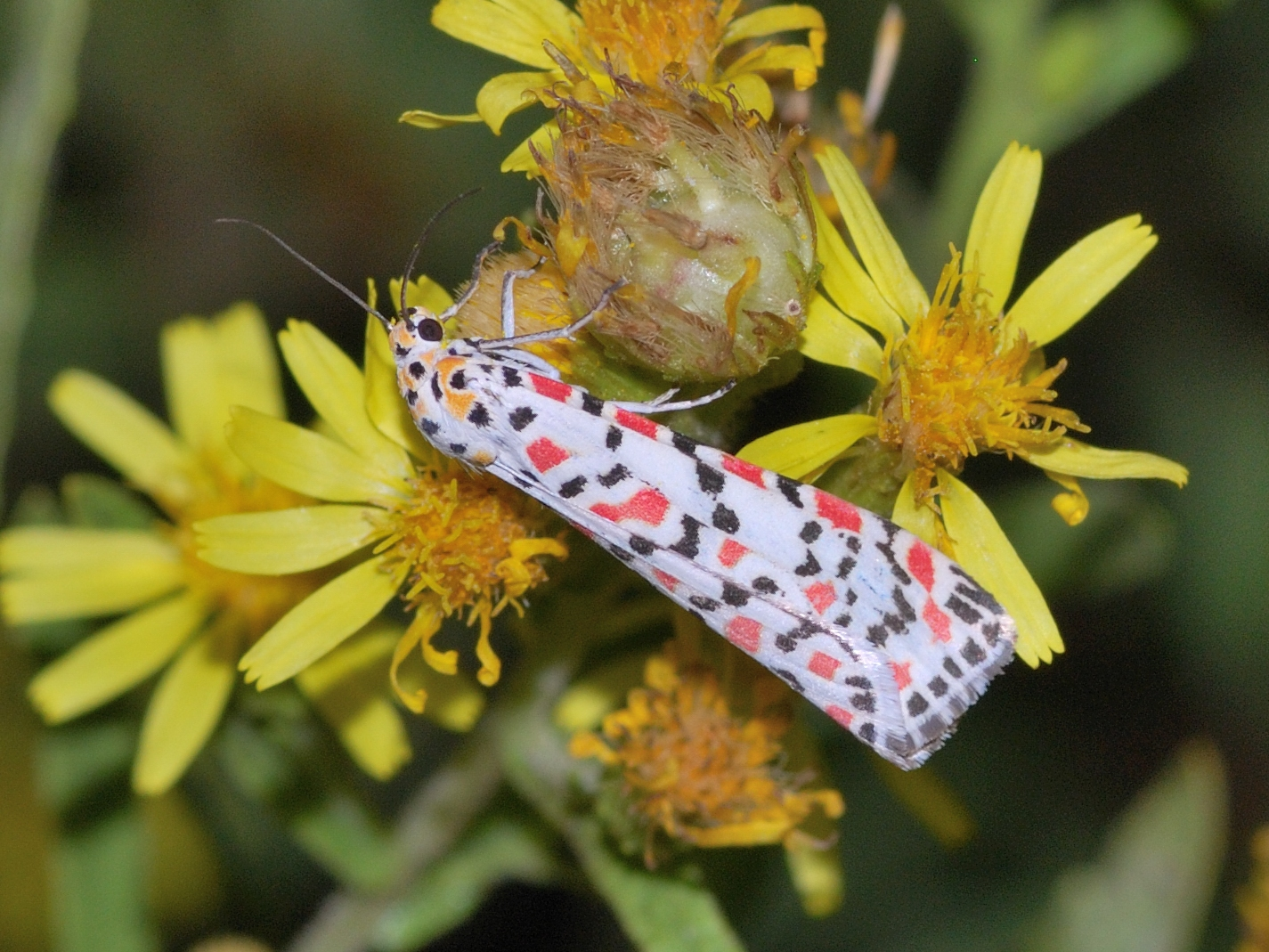 Utetheisa pulchella on Dittrichia viscosa, Mount Carmel, Israel, October 22, 2009, 17:01.